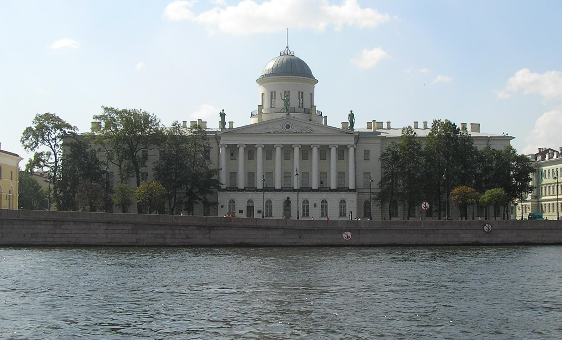 Institute of Russian Literature, Saint Petersburg